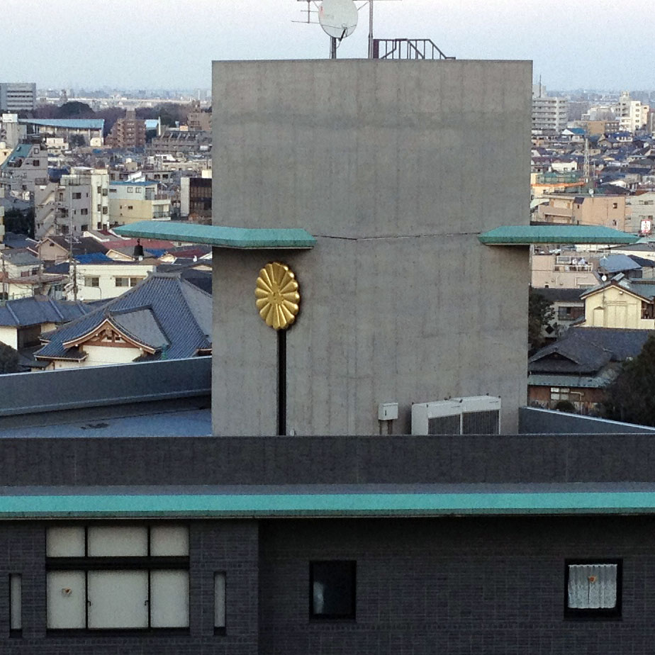 The chrysanthemum crest with santaishô (three stars) atop Shôhôin temple, Tokyo. Santaishô is a symbol of Tendai school of Japanese Buddhism. Note: The file name wrongly describes the temple's name as "Denpoin". Correct name "Shôhôin".